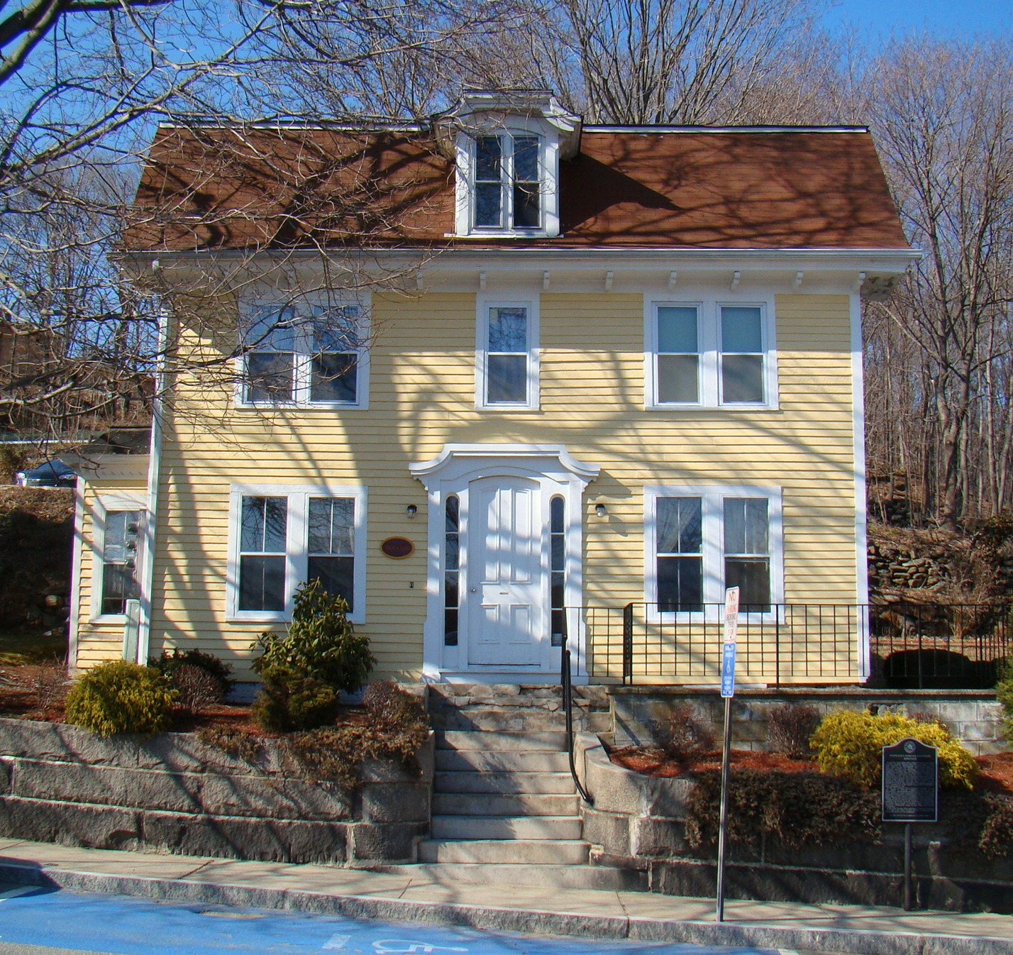 Downtown Norwich Historic District: Home of former slave and blacksmith Guy Druck, This home sits at the entrance to the Jail Hill district.